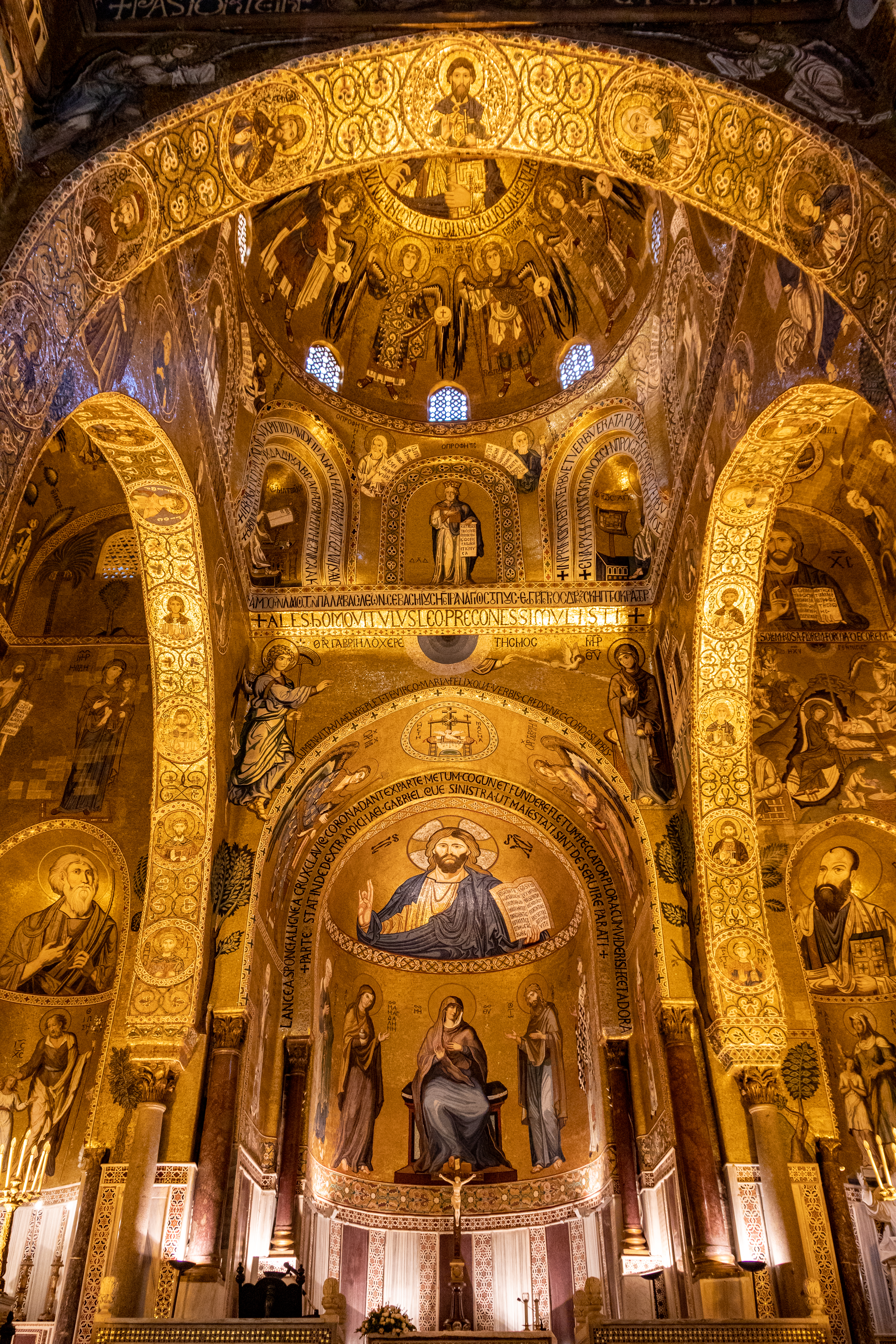 Palatine chapel (Palermo)